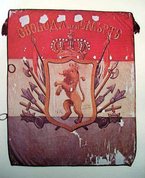 Flag of Filip Totyu's band. Inscription in Bulgarian: Свобода или смърть (In